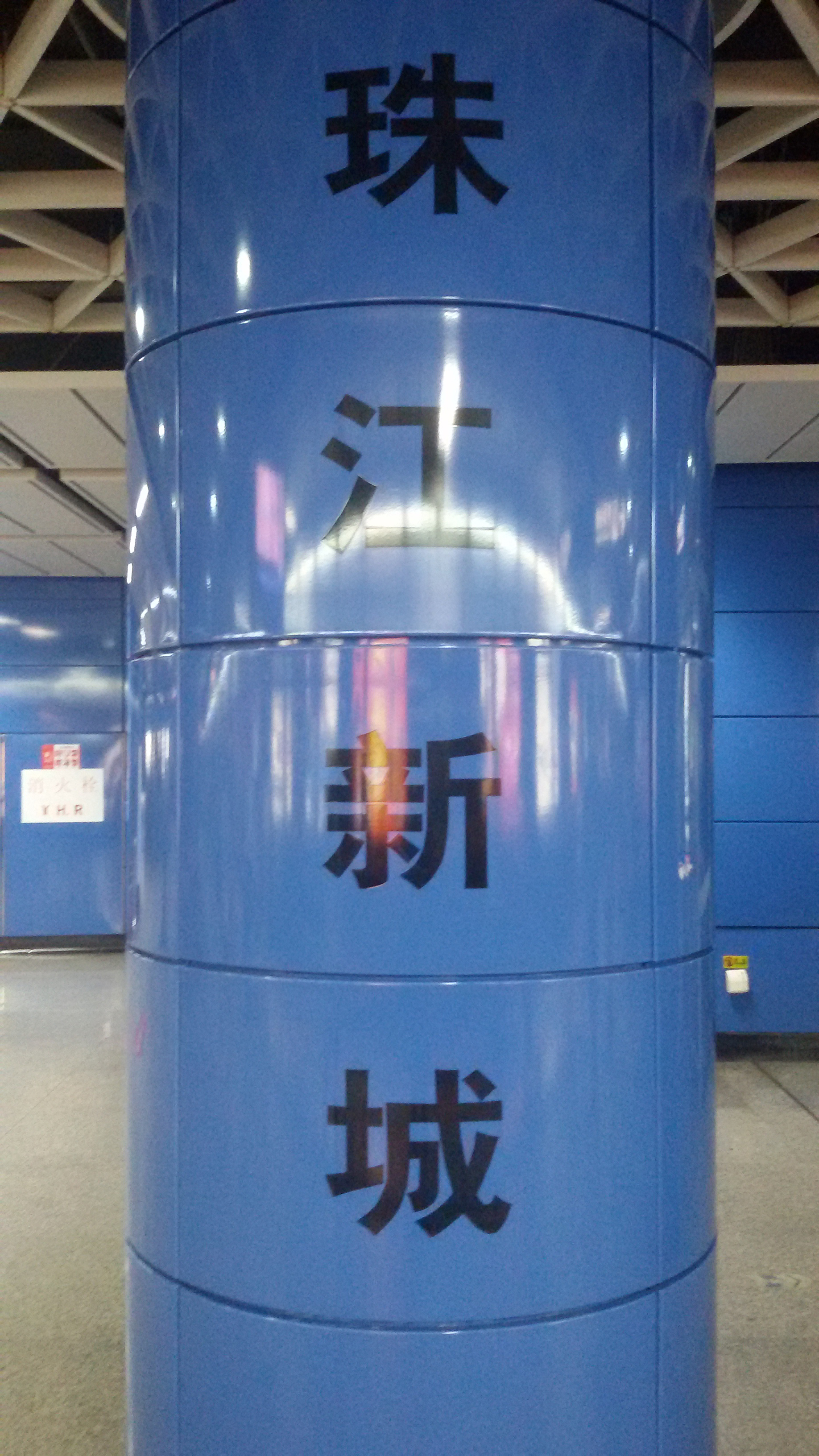 WORD on PILLAR for Zhujiang New Town Station 粵語: 珠江新城站嘅柱上邊啲字